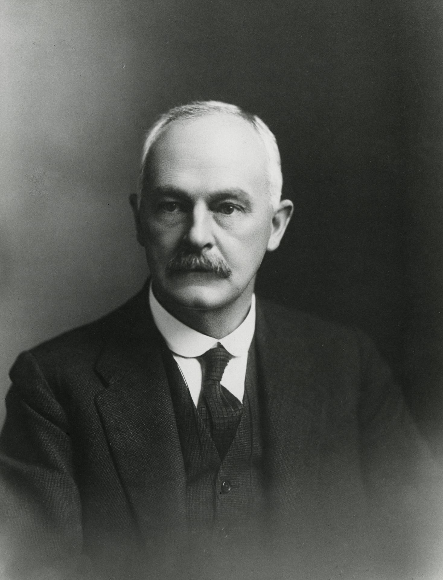 Bust-length photo portrait of David Orme Masson (1858-1937), English scientist, emigrated to Australia, became Professor of Chemistry at Melbourne, known for work on Nitroglycerine.